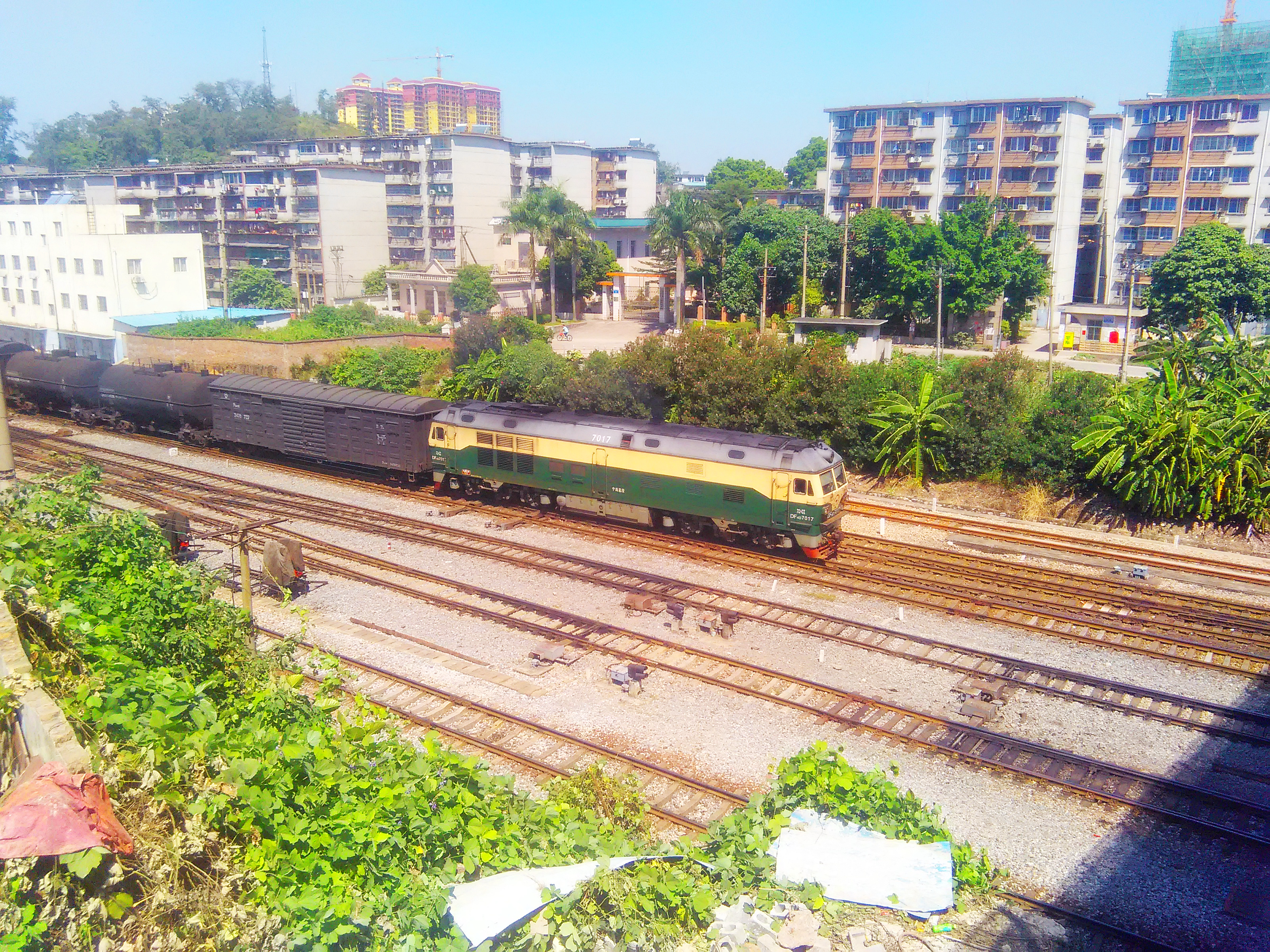 China Railways DF4D 7017 in Yulin Railway Station.